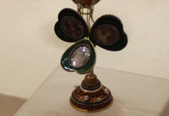 The surprise is a heart shaped photo frame that opened as a three-leaf clover with each leaf containing three miniature portraits of Nicholas II, his wife, the Empress Alexandra Fyodorovna, and their first child, Grand Duchess Olga Nikolaevna. I